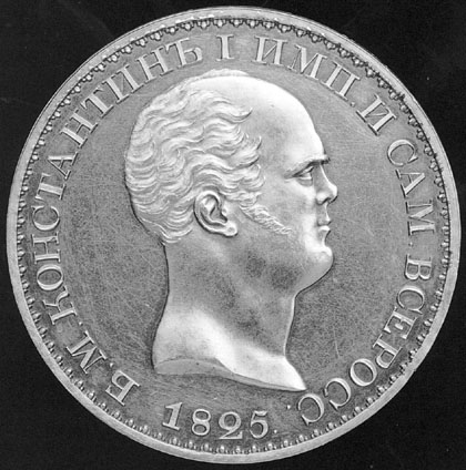 This is a pattern coin (rouble) of Grand Duke Constantine Pavlovich of Russia. This type was never issued, it remained a pattern.